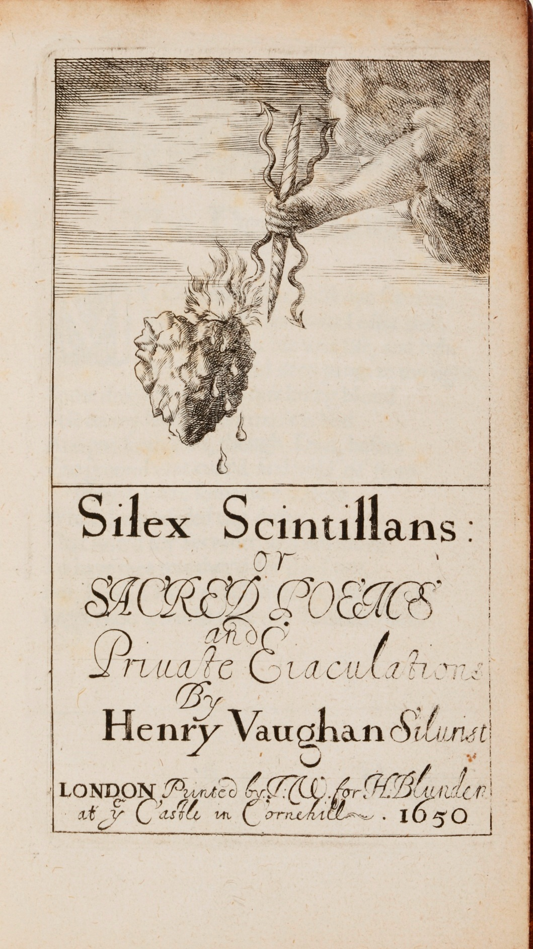 The title page of Henry Vaughan’s SILEX SCINTILLANS; OR, SACRED POEMS AND PRIVATE EJACULATIONS. LONDON: PRINTED BY T[HOMAS]. W[ALKLEY]. FOR H. BLUNDEN AT YE CASTLE IN CORNEHILL, 1650